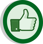 A Wikipedia like thumb made from File:Facebook like thumb.png & File:Symbol confirmed.svg